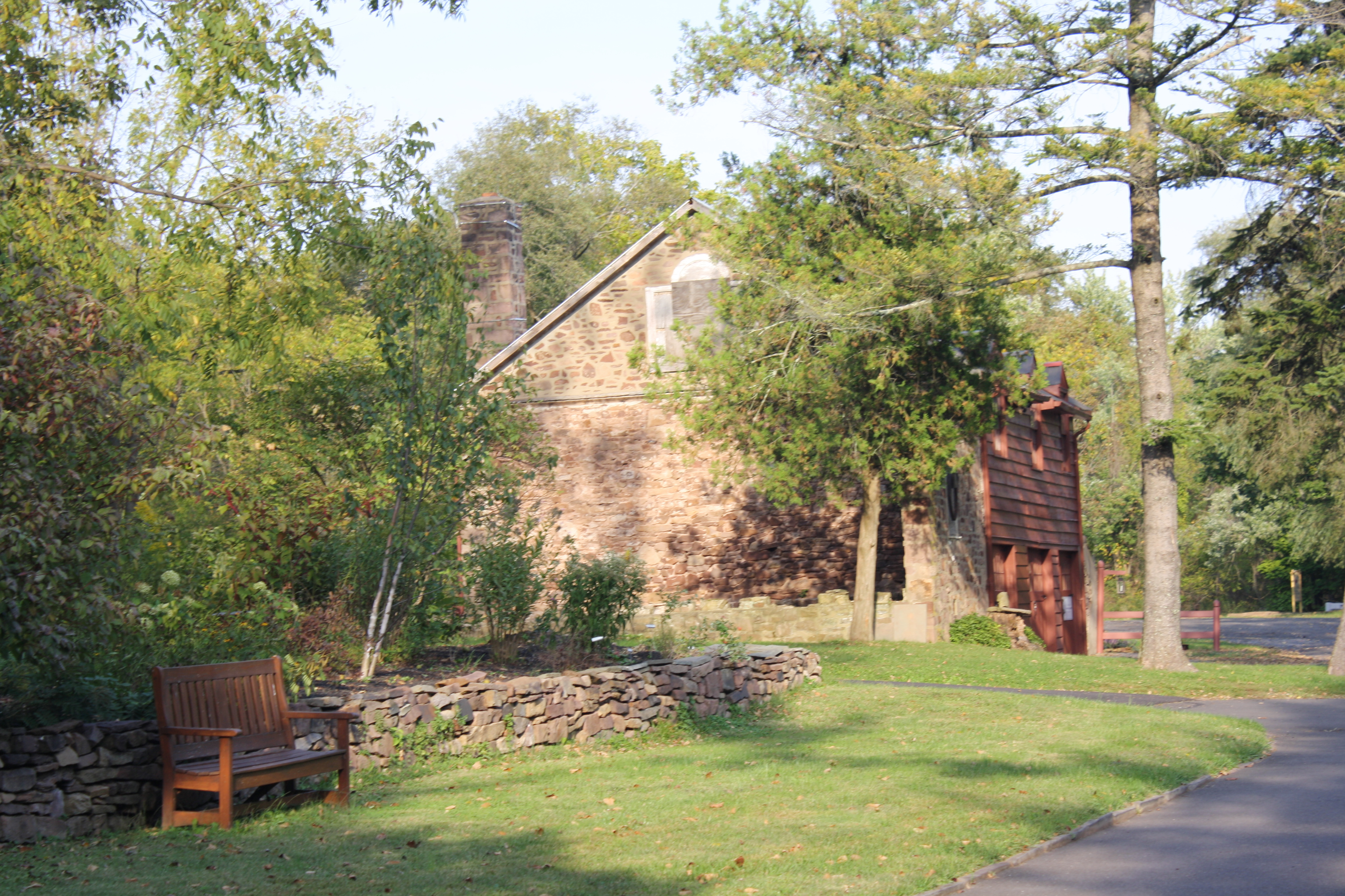 Moland House